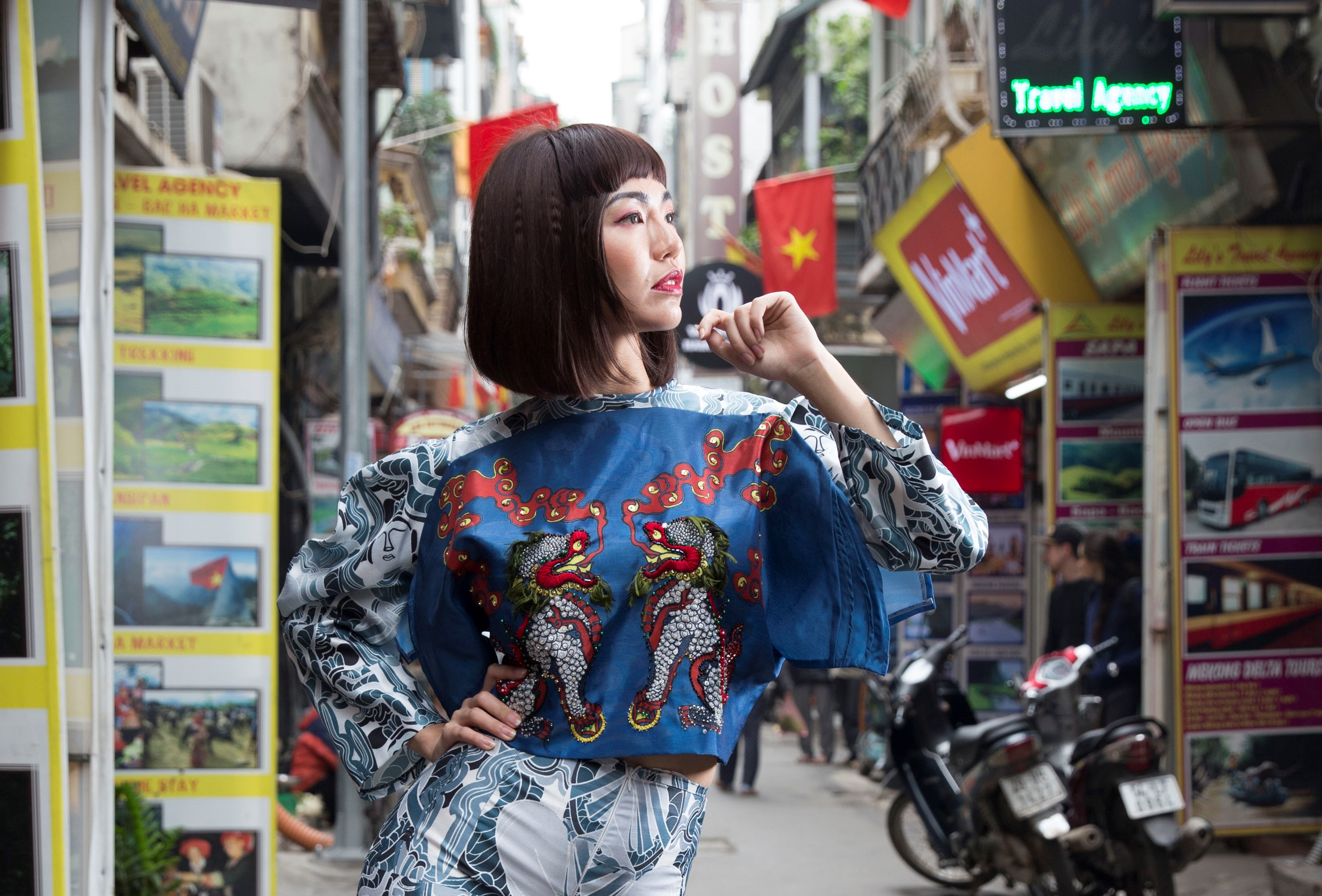 The sculpture image of the designer was inspired by the research of PhD. artist Tran Hau Yen The put a traditional Vietnamese traditional dress on.